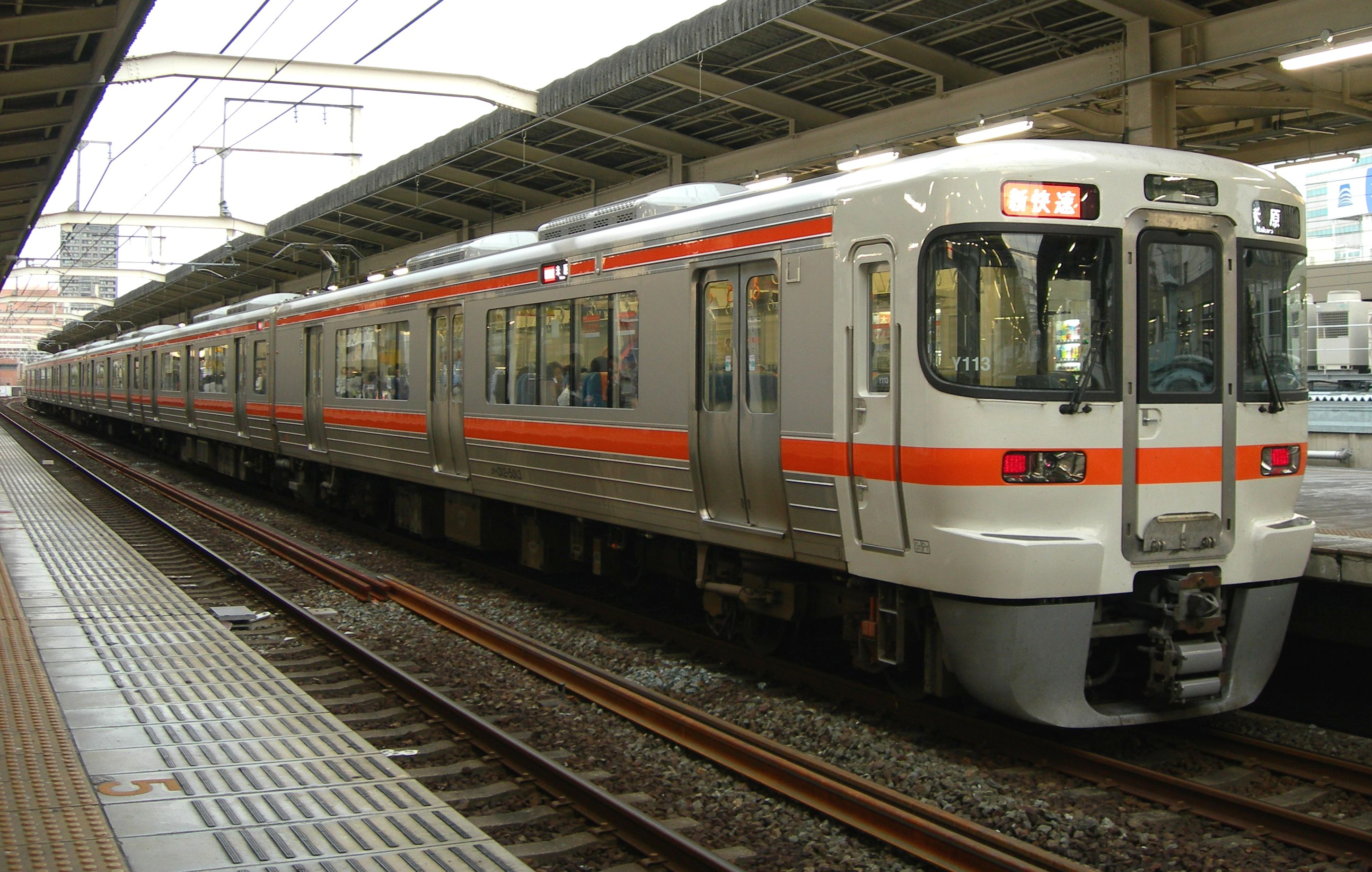 JR Central 313-5000 series 6-car EMU set Y113 at Hamamatsu Station